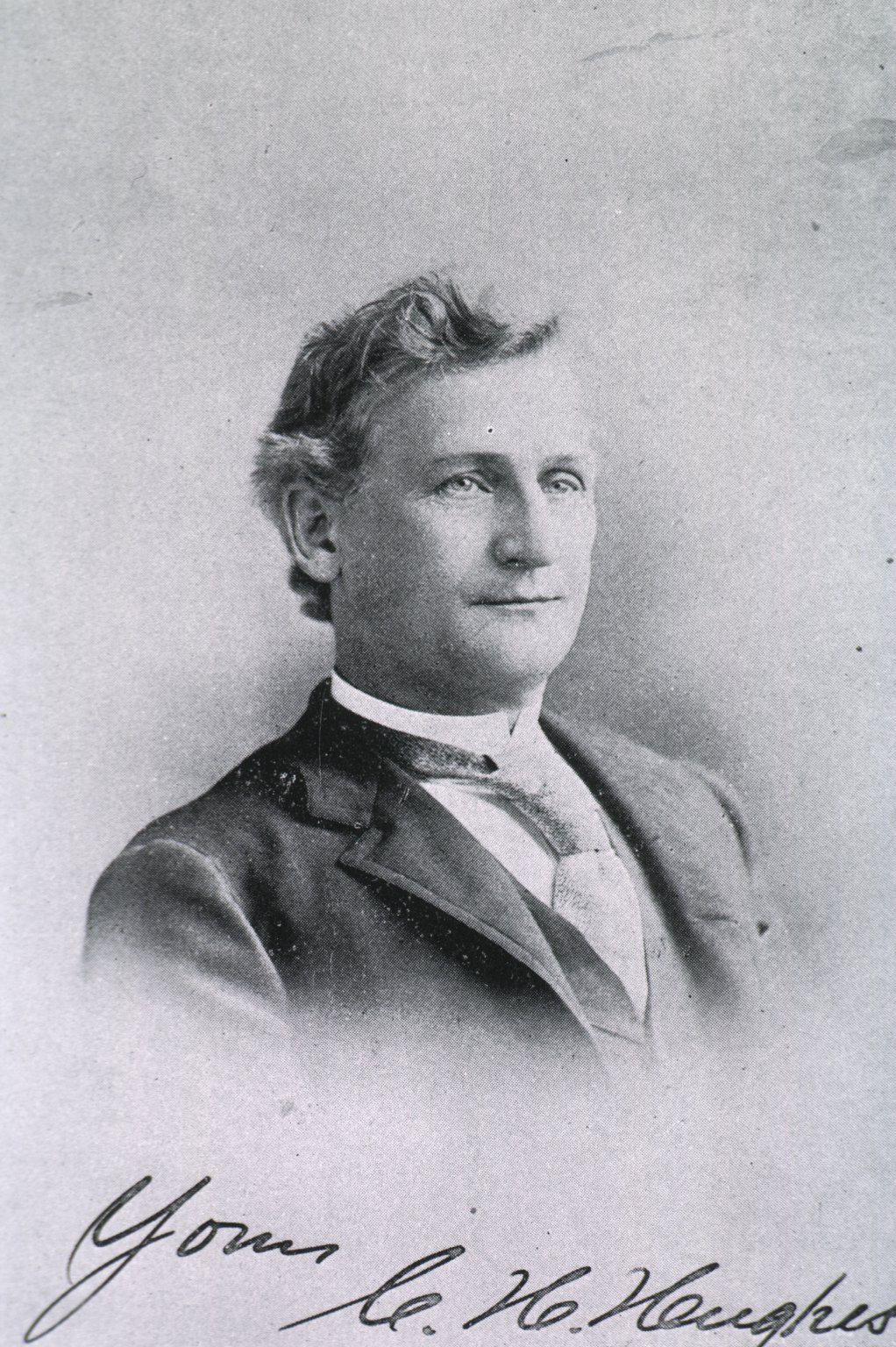 Charles Hamilton Hughes, M. D.